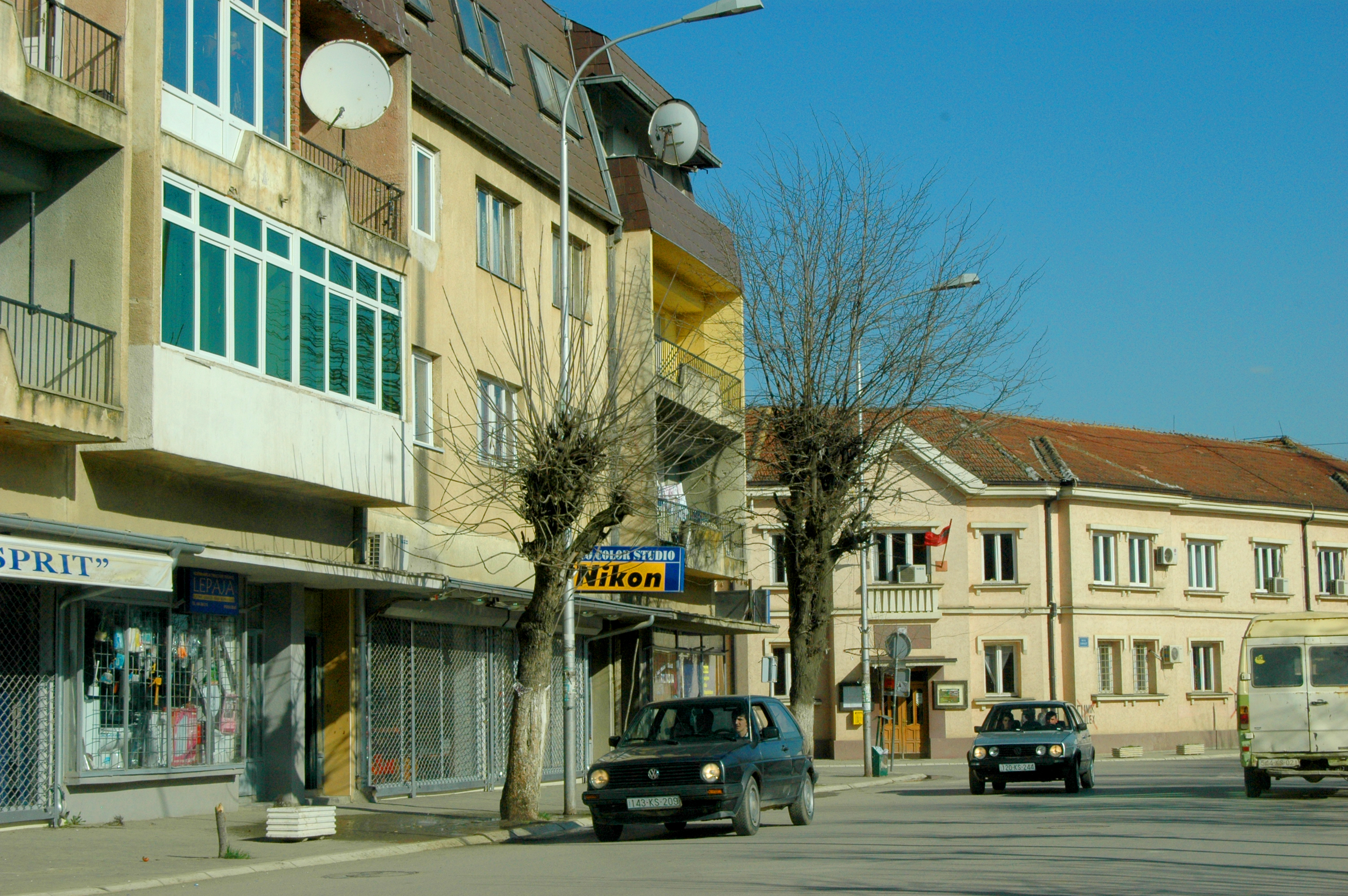 photo: Arian Selmani